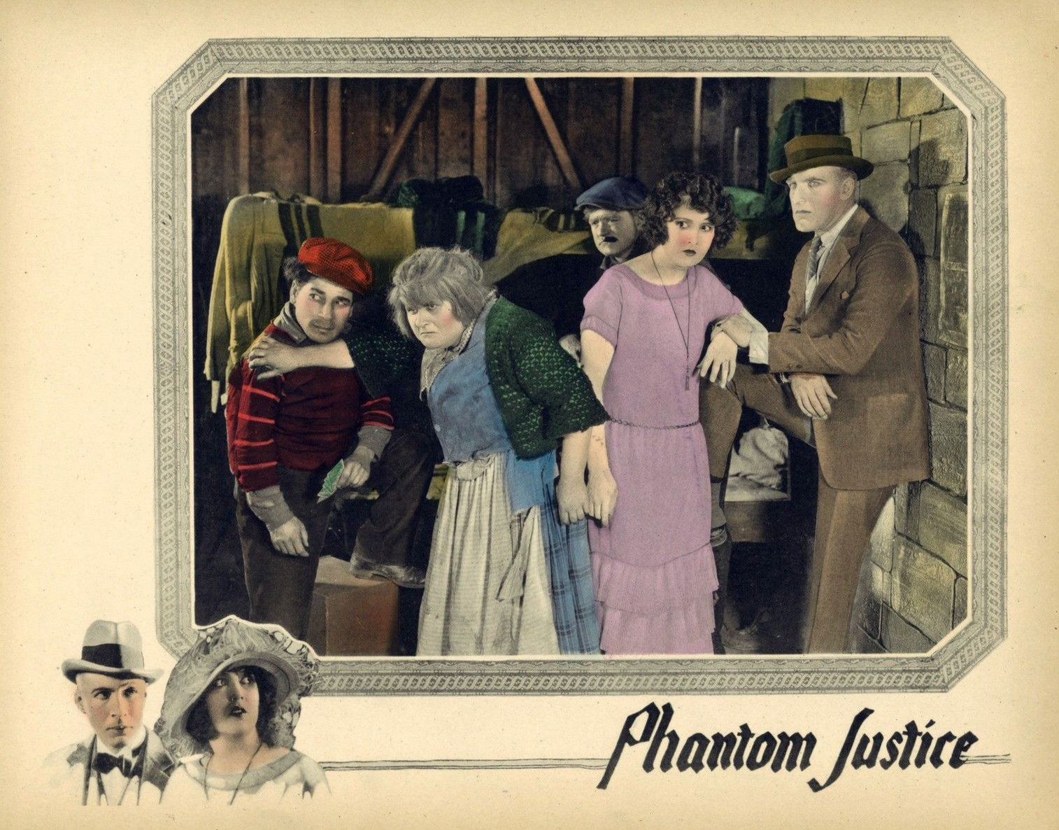 Lobby card for the American crime drama film Phantom Justice (1924).